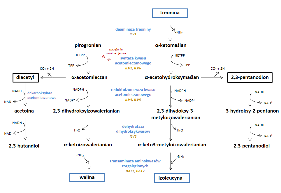 Formation of diacetyl and 2,3-pentadione. Valine and isoleucine biosynthesis in Saccharomyces cerevisiae.